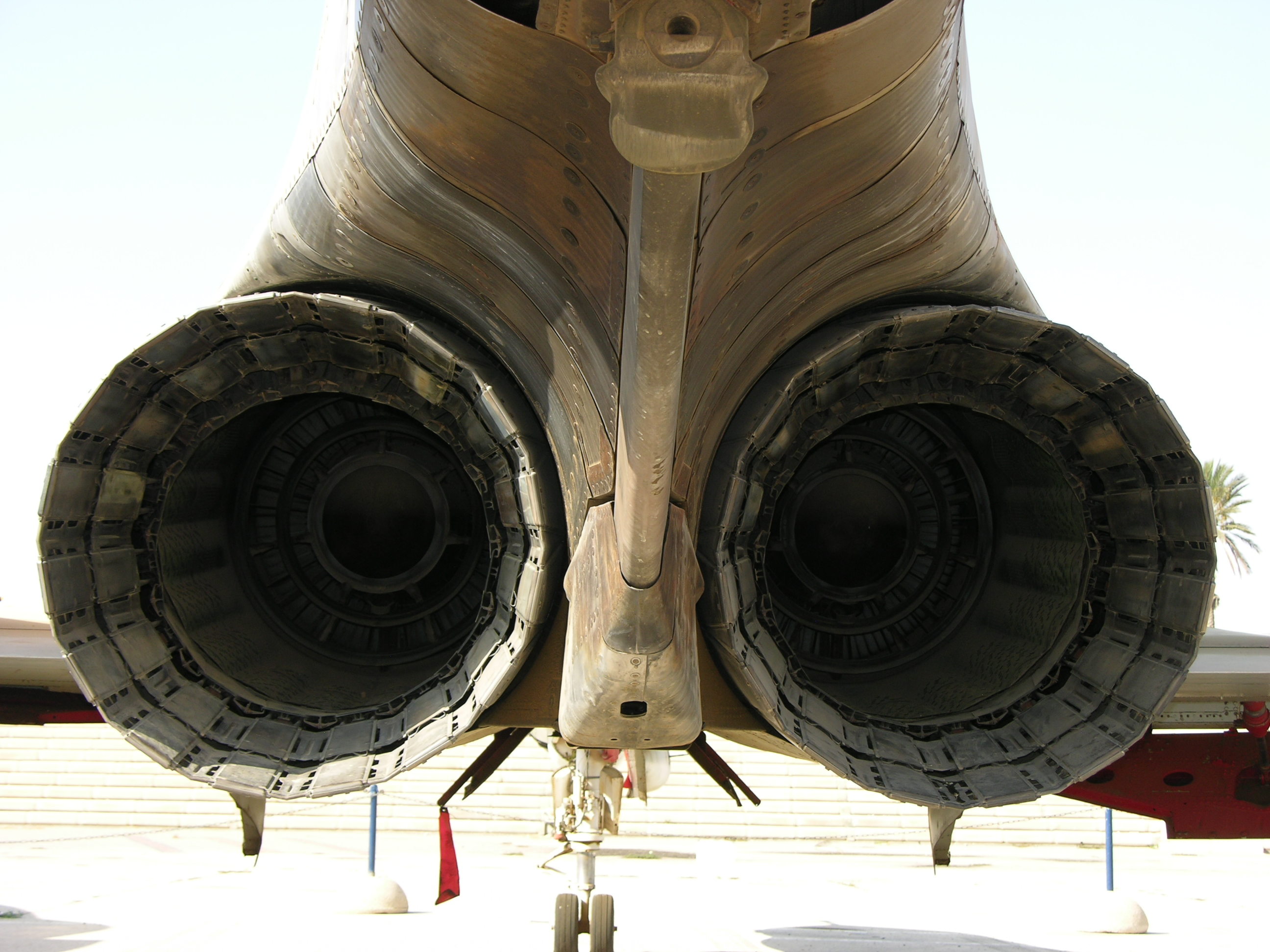 Rear view of an Israeli F-4E